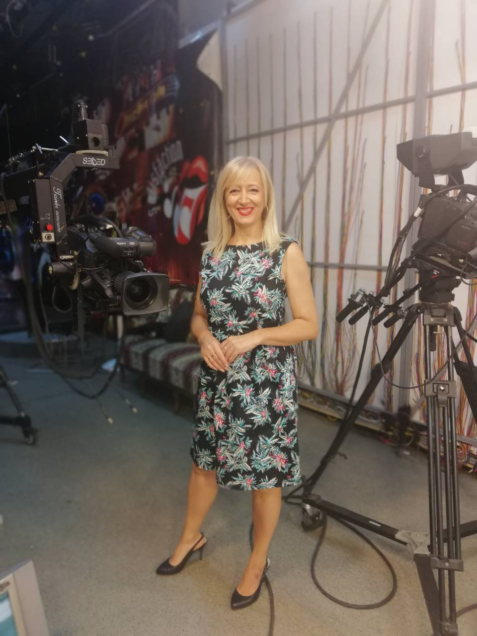 Snežana Đorđević, jurnalist and TV host